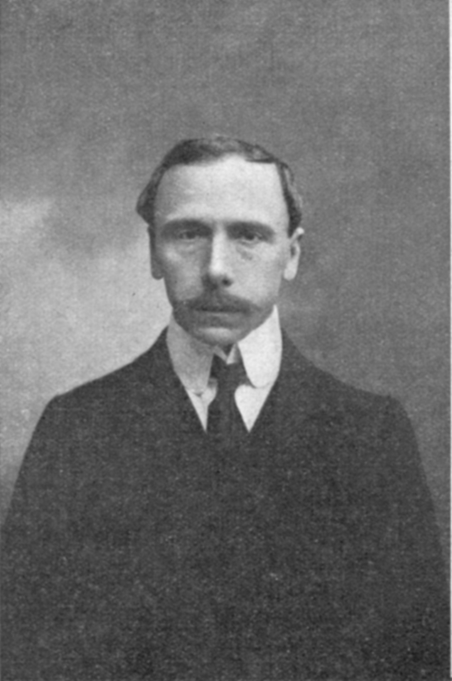 Artur Górski (1870–1959), Polish literary critic.